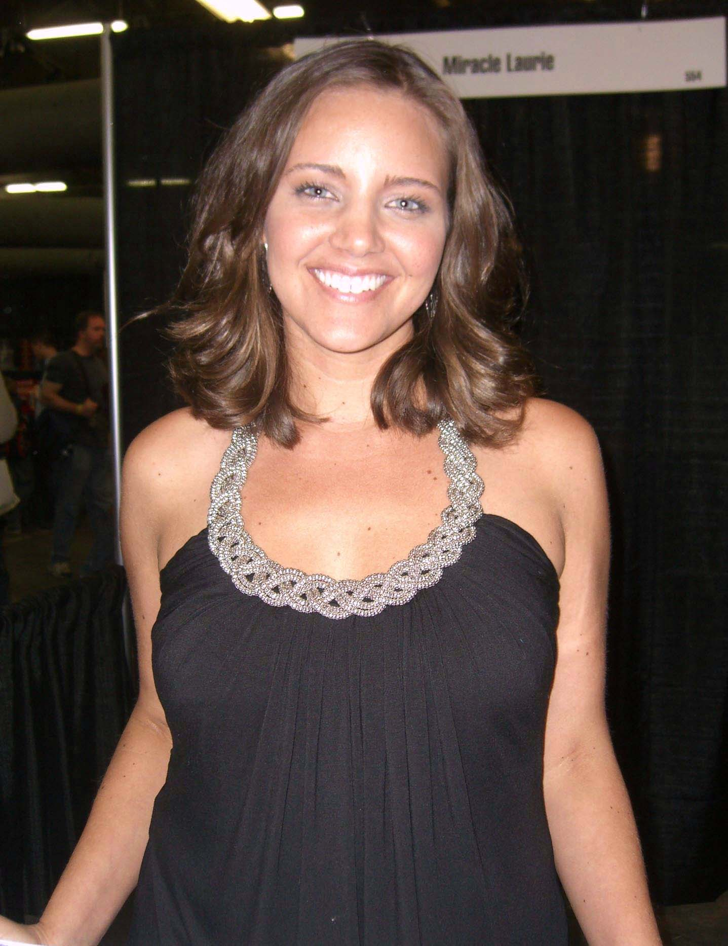 Actress Miracle Laurie at the Big Apple Convention in Manhattan. Photographed by Luigi Novi. This photo may only be used if the photographer is properly credited. (See Licensing information below.)